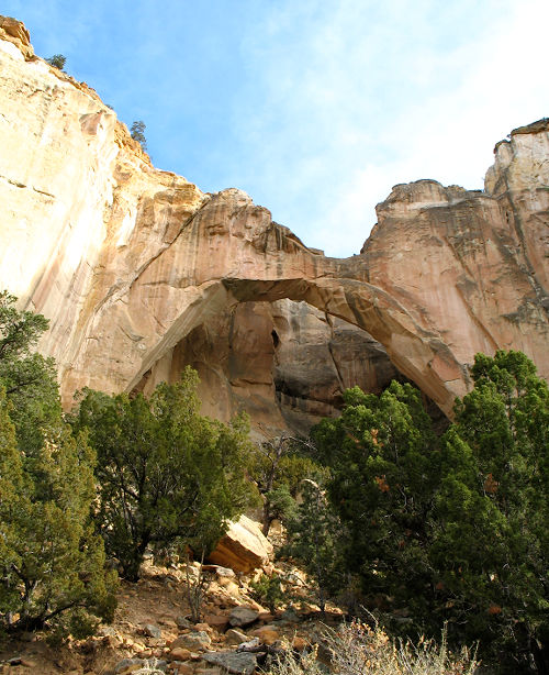 La Ventana arch in El Malpais National Park, near Grants, New Mexico, USA. Taken by (WT-shared) Charles Basenga Kiyanda November 11, 2006.